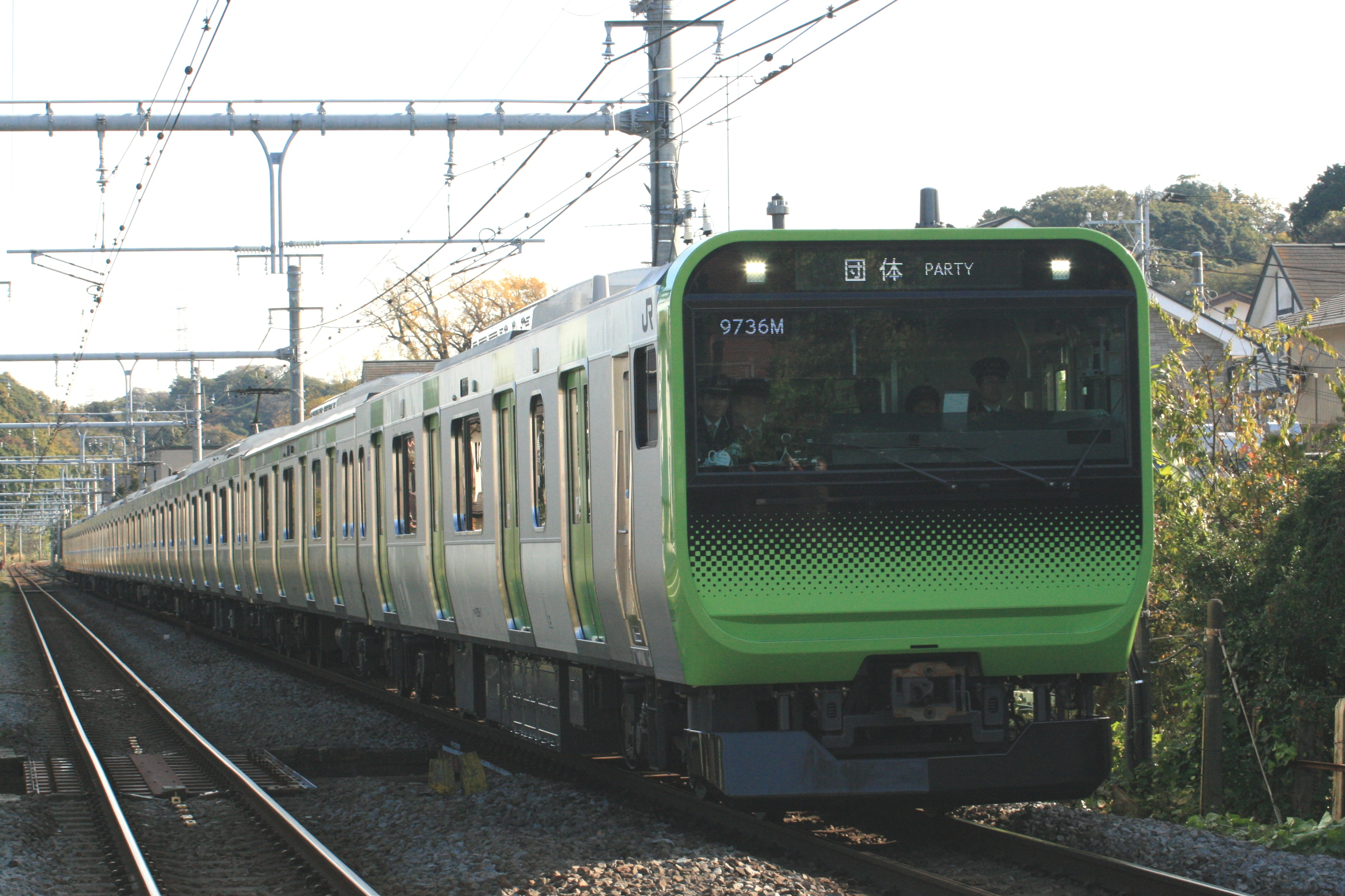 The first JR East E235 series Yamanote Line EMU approaching Higashi-zushi Station on the Yokosuka Line on a special charter service